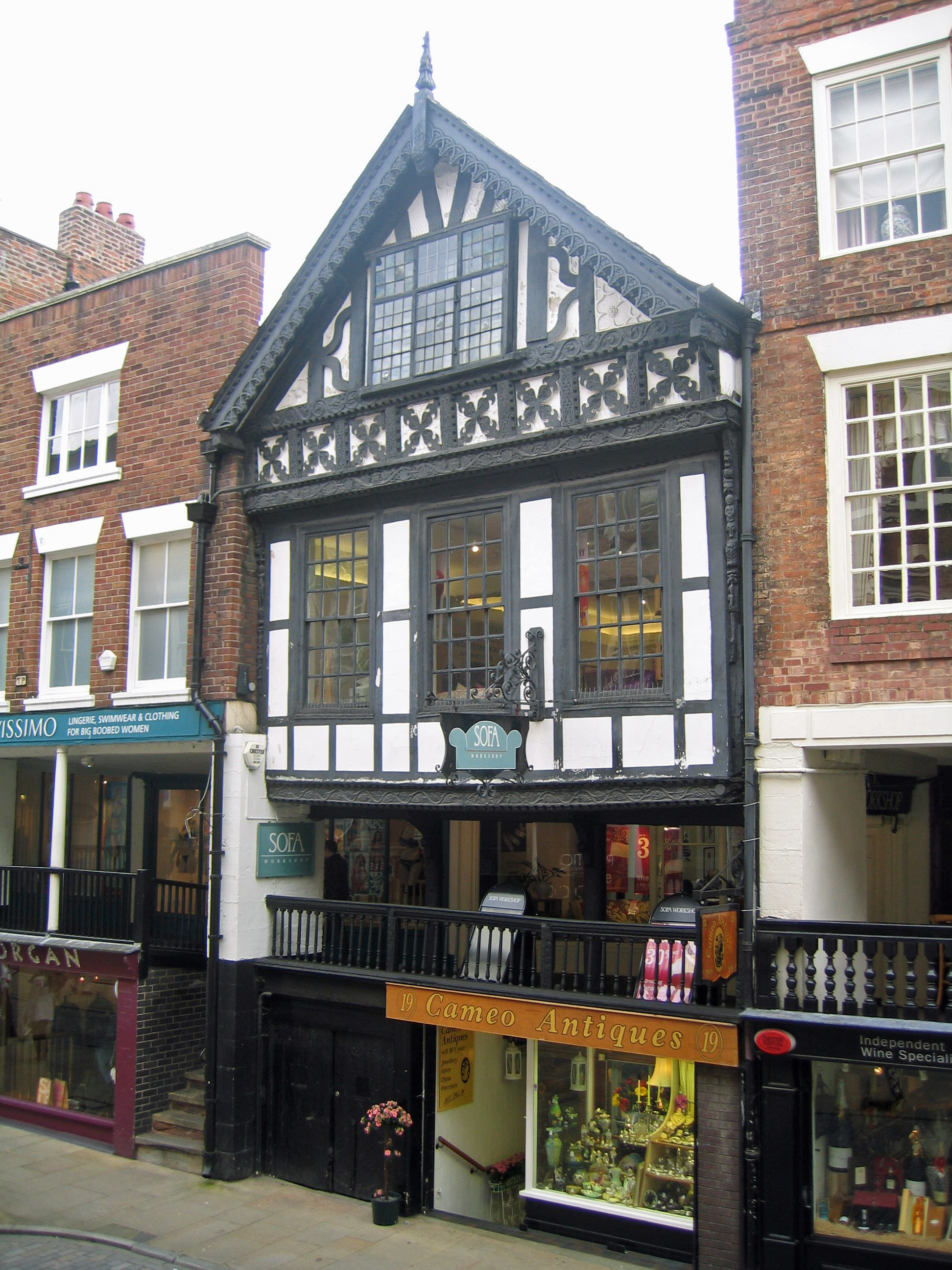 Photograph of Leche House, Watergate Street, Chester, Cheshire, England